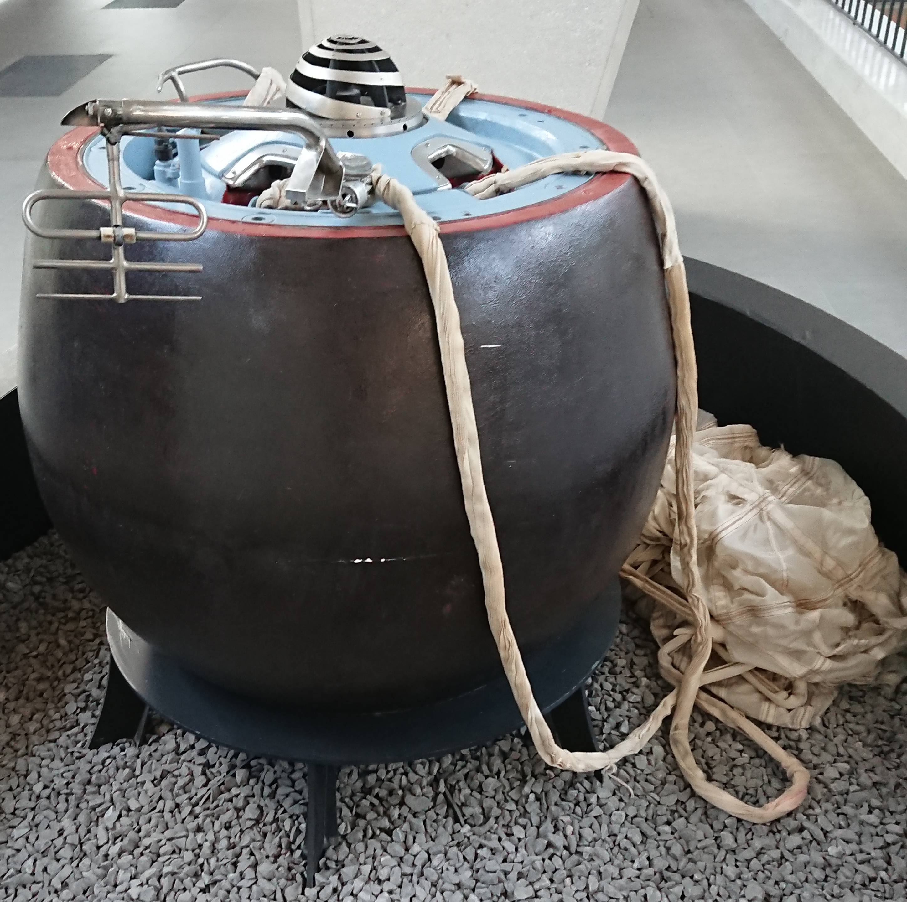 Descent vehicle of the Venera-7. Lavochkin Scientific Production Association. Russia, Moscow, BDNKh, Pavilion № 32 "Cosmos".